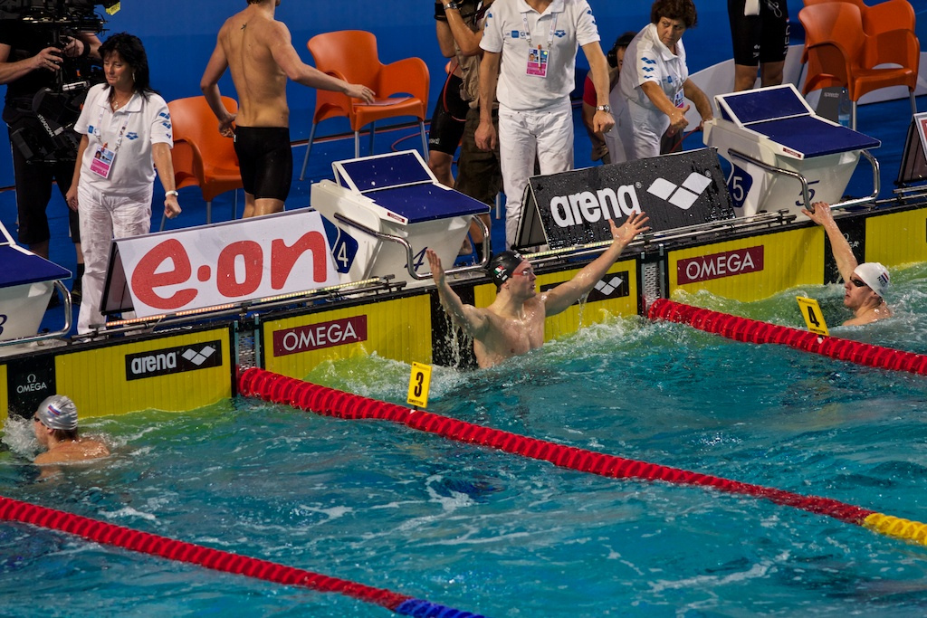 Marco Orsi at 2010 European Short Course Swimming Championships in Eindhoven